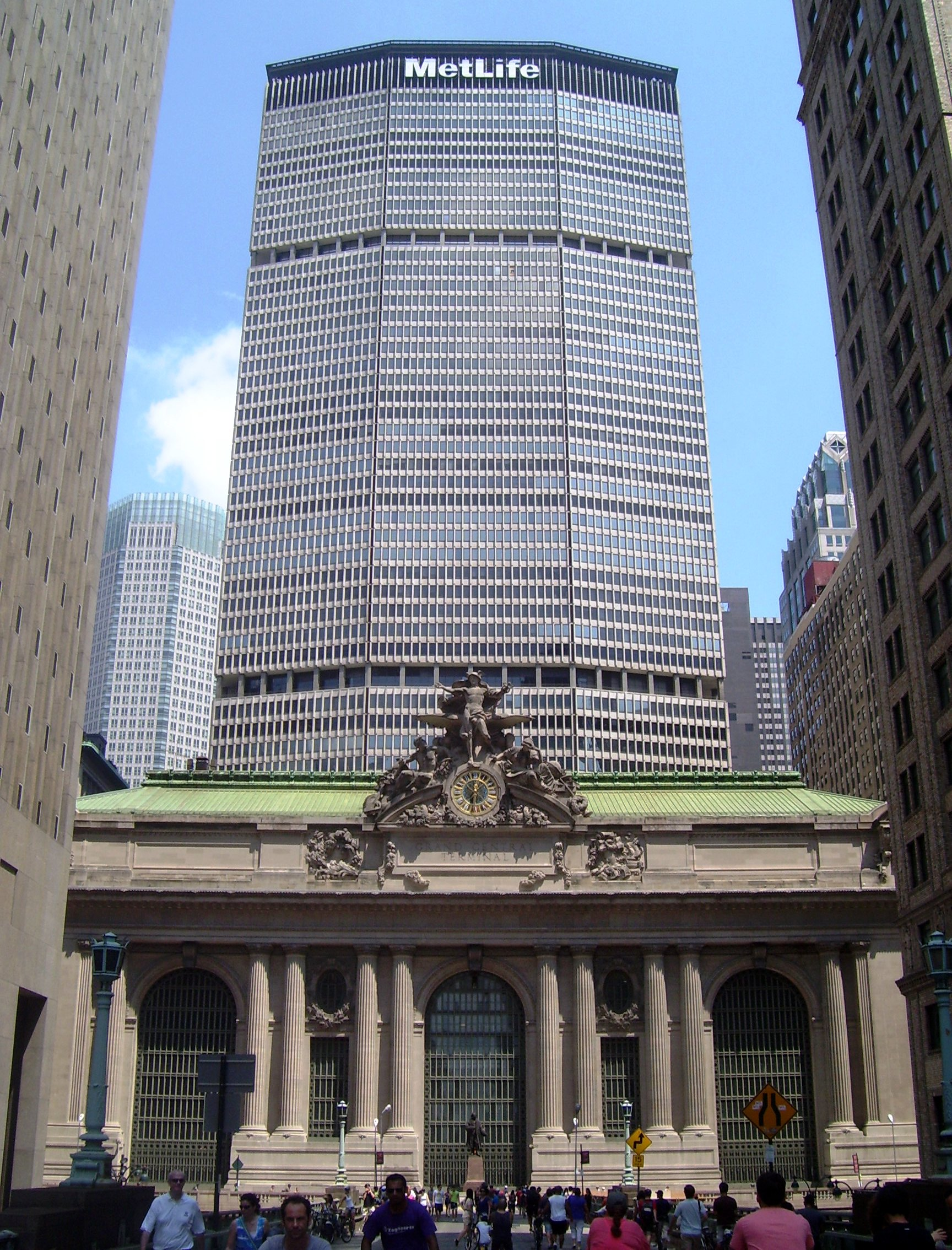 Grand Central Terminal and the MetLife Building seen from the Park Avenue Viaduct during "Summer Streets", when 7 miles of New York City streets are closed to vehicular traffic.